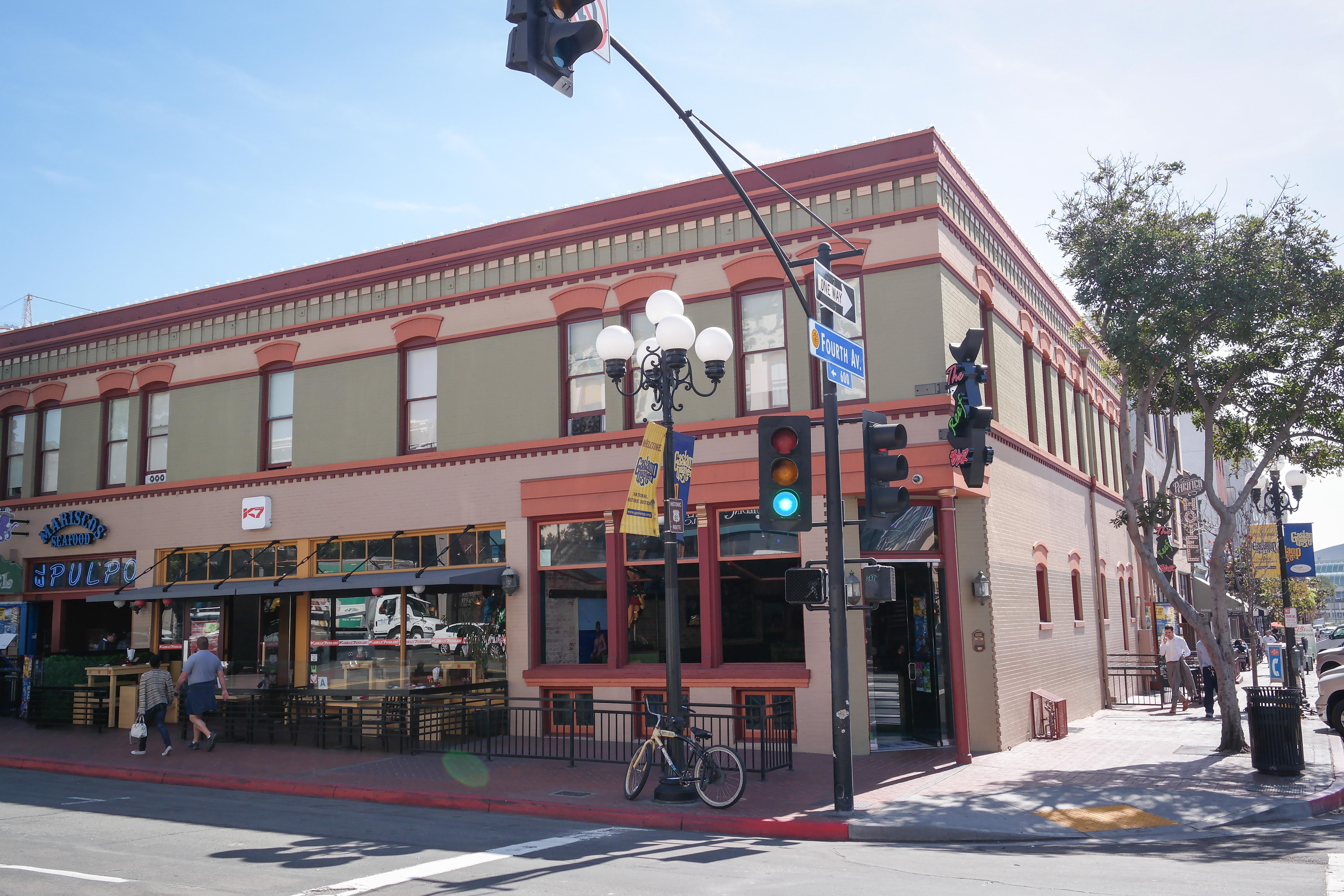 Historic Building Survey plaque: "5 Lester Hotel, 1906. The first floor of this building has a colorful tenant history. The Goodwill Bar operated from 1906 to 1945. In 1945, Mike McIntosh and Sam Dini purchased the business. They were responsible for the 'McDini' corned beef sandwich of local fame. In 1923, Aurelis Abito opened the International Pool Hall. Abito was a pioneer member of San Diego's Filipino community. The second floor was known as the Hotel Lester from 1915 to 1984."